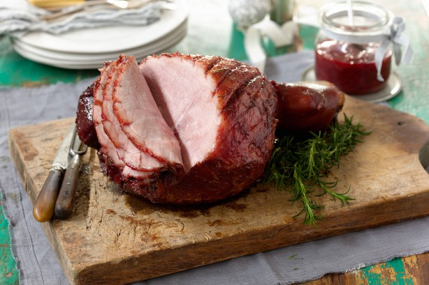 Australian Style of Christmas Ham